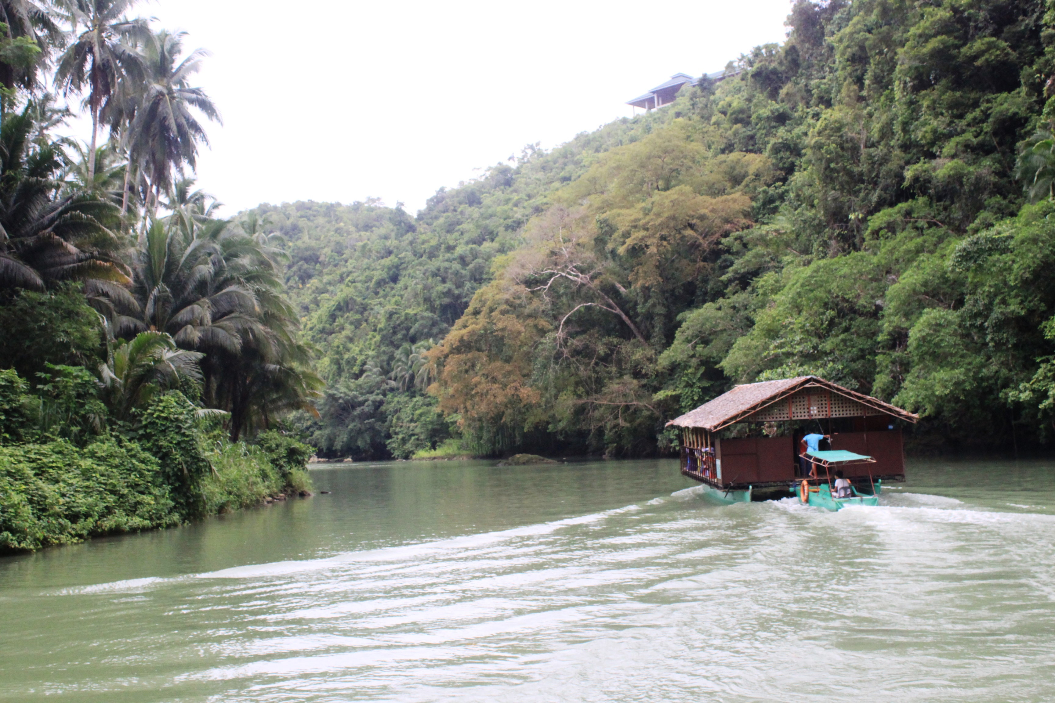 Cruising Loboc River in a floating restaurant is more fun in the Philippines.